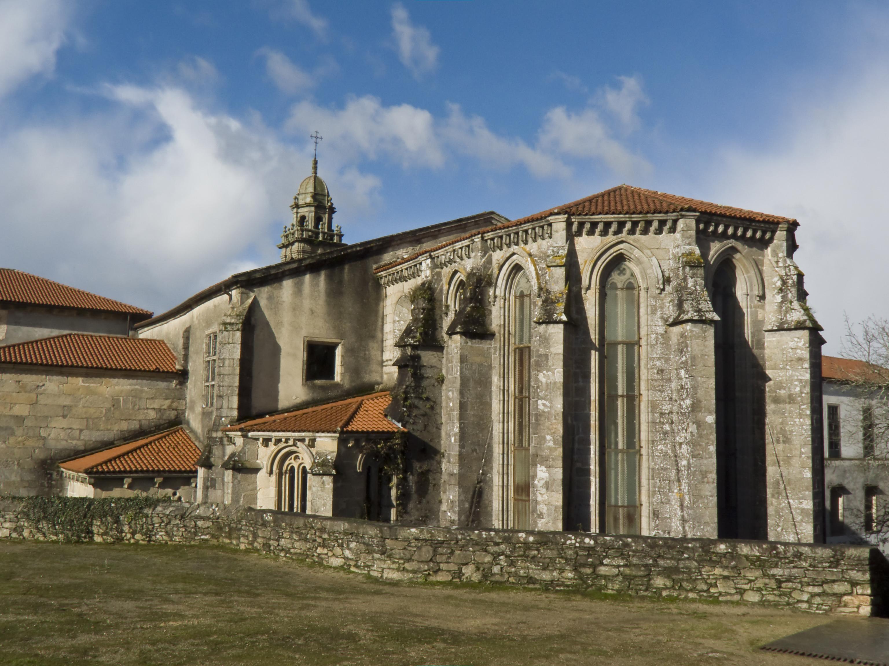 Gothic apse of Santo Domingos de Bonaval - Santiago de Compostela - Galicia - Spain